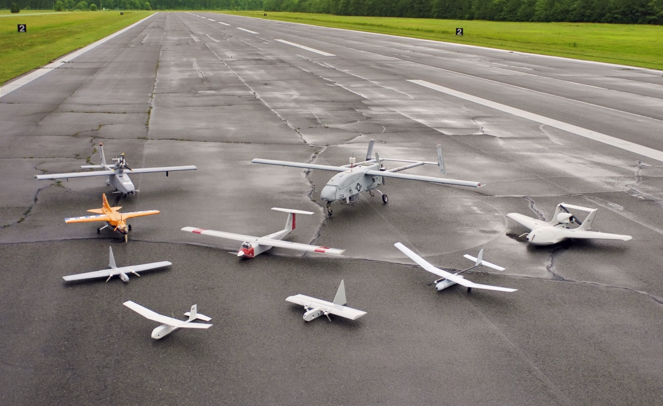 St. Inigoes, Md. (June 27, 2005) – A group photo of aerial demonstrators at the 2005 Naval Unmanned Aerial Vehicle Air Demo held at the Webster Field Annex of Naval Air Station Patuxent River. Pictured are (front to back, left to right) RQ-11A Raven, Evolution, Dragon Eye, NASA FLIC, Arcturus T-15, Skylark, Tern, RQ-2B Pioneer and Neptune. The daylong UAV demonstration highlights unmanned technology and capabilities from the military and industry and offers a unique opportunity to display and demonstrate full-scale systems and hardware. This year’s theme was, “Focusing Unmanned Technology on the Global War on Terror.”